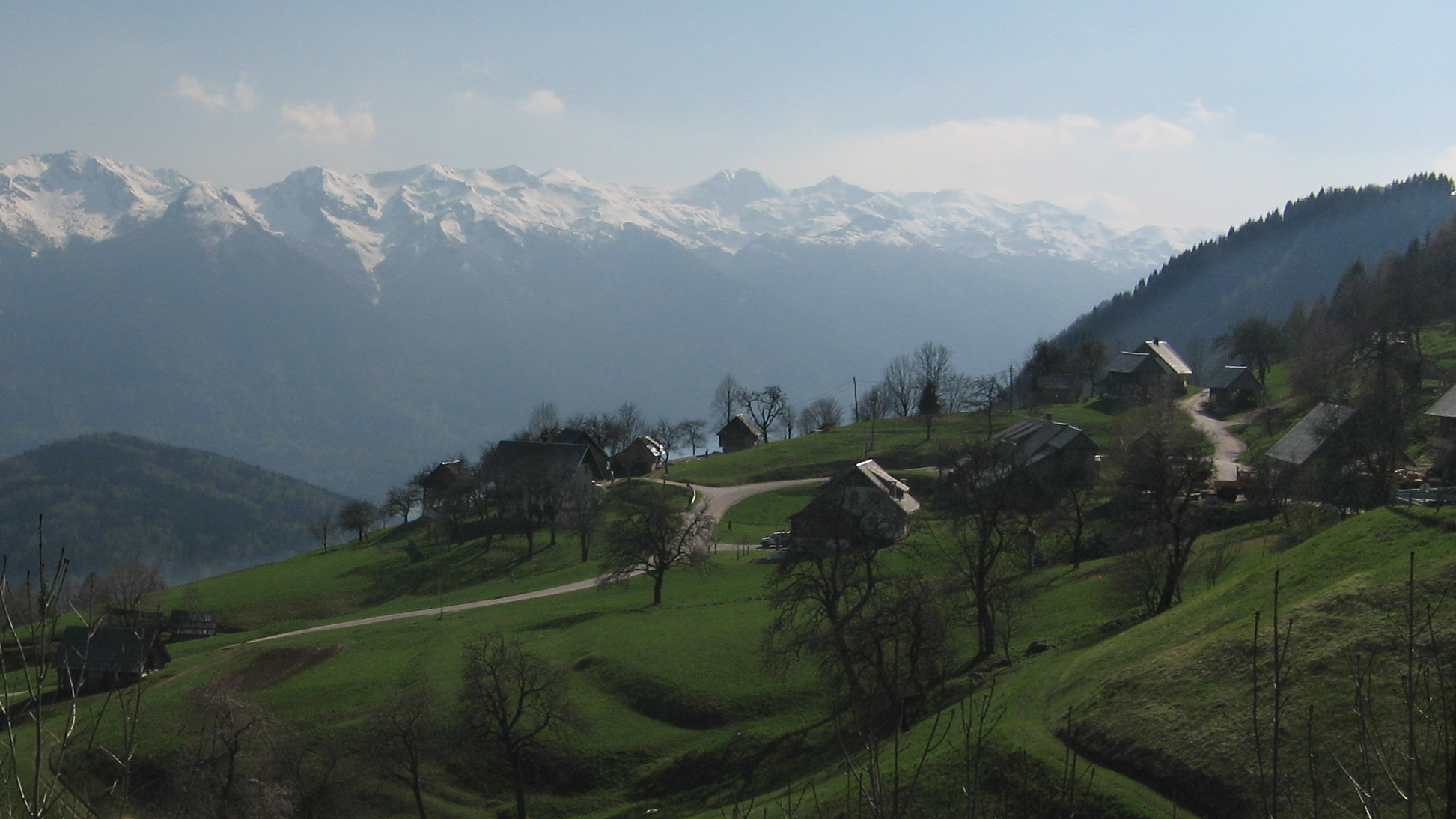 Podjelje, a vilage in Bohin municipality, Slovenia.